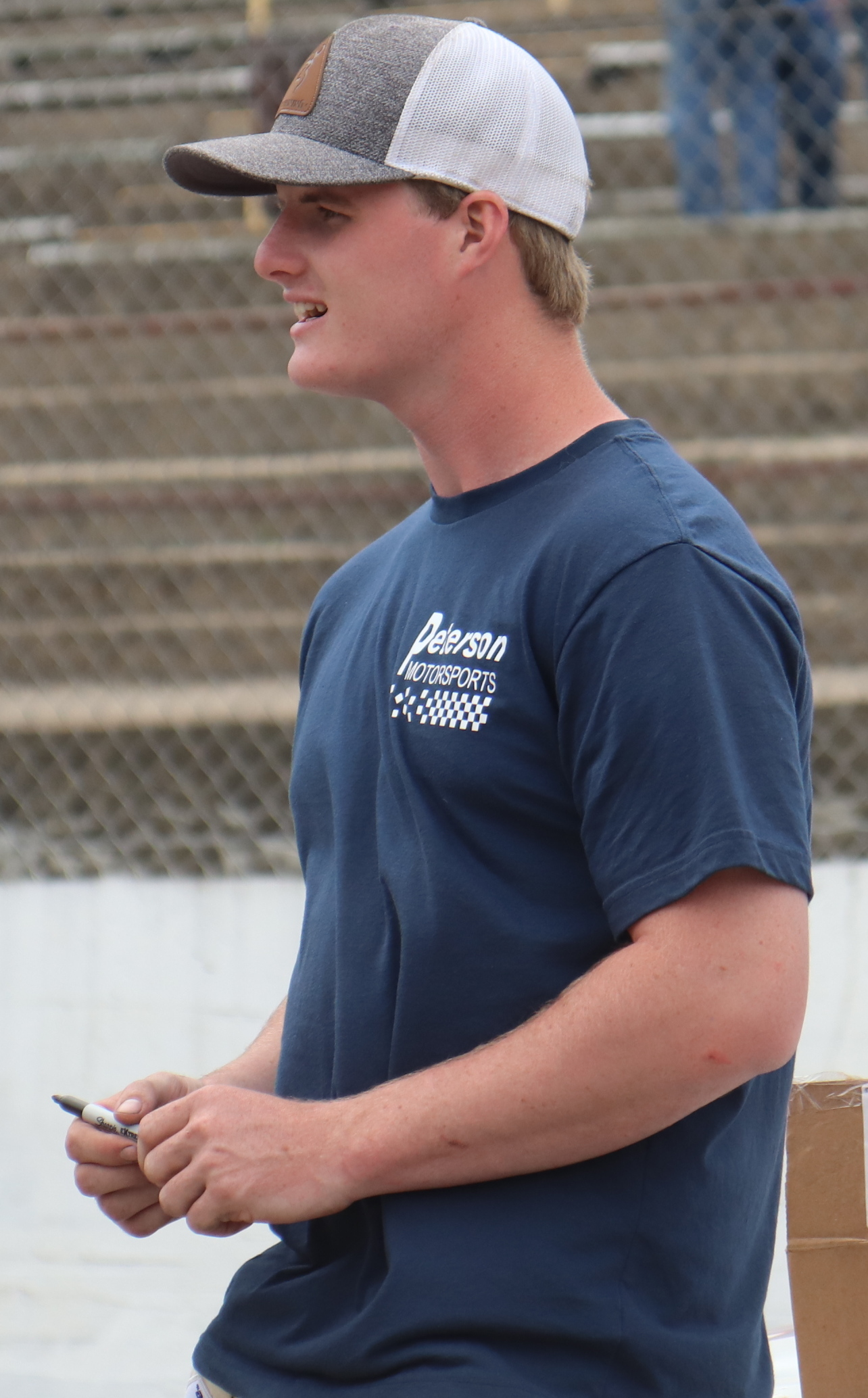 ARCA driver Tim Richmond at Madison International Speedway. This is a different person than the NASCAR driver in the 1980s.